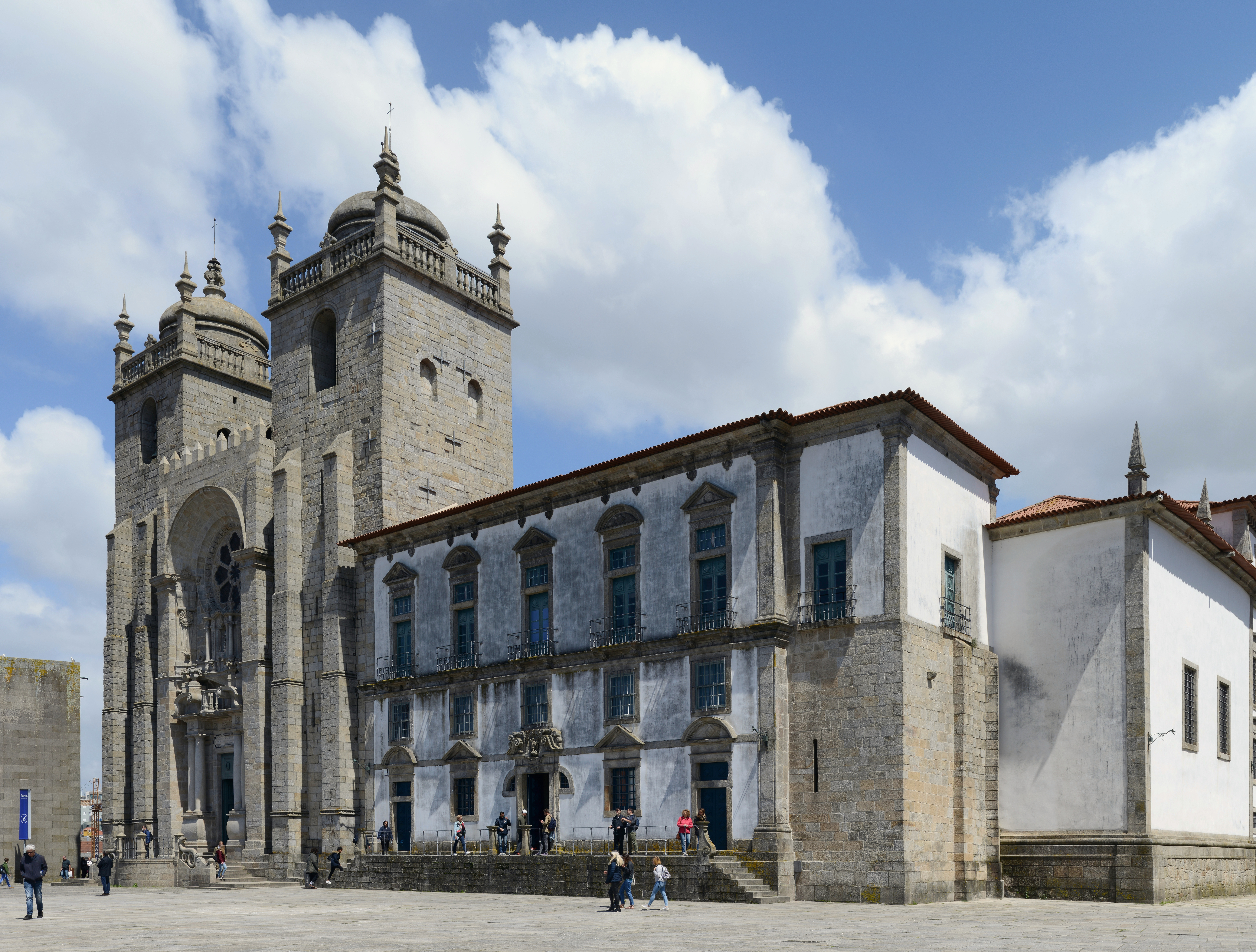 The Sé Cathedral of Porto, Portugal